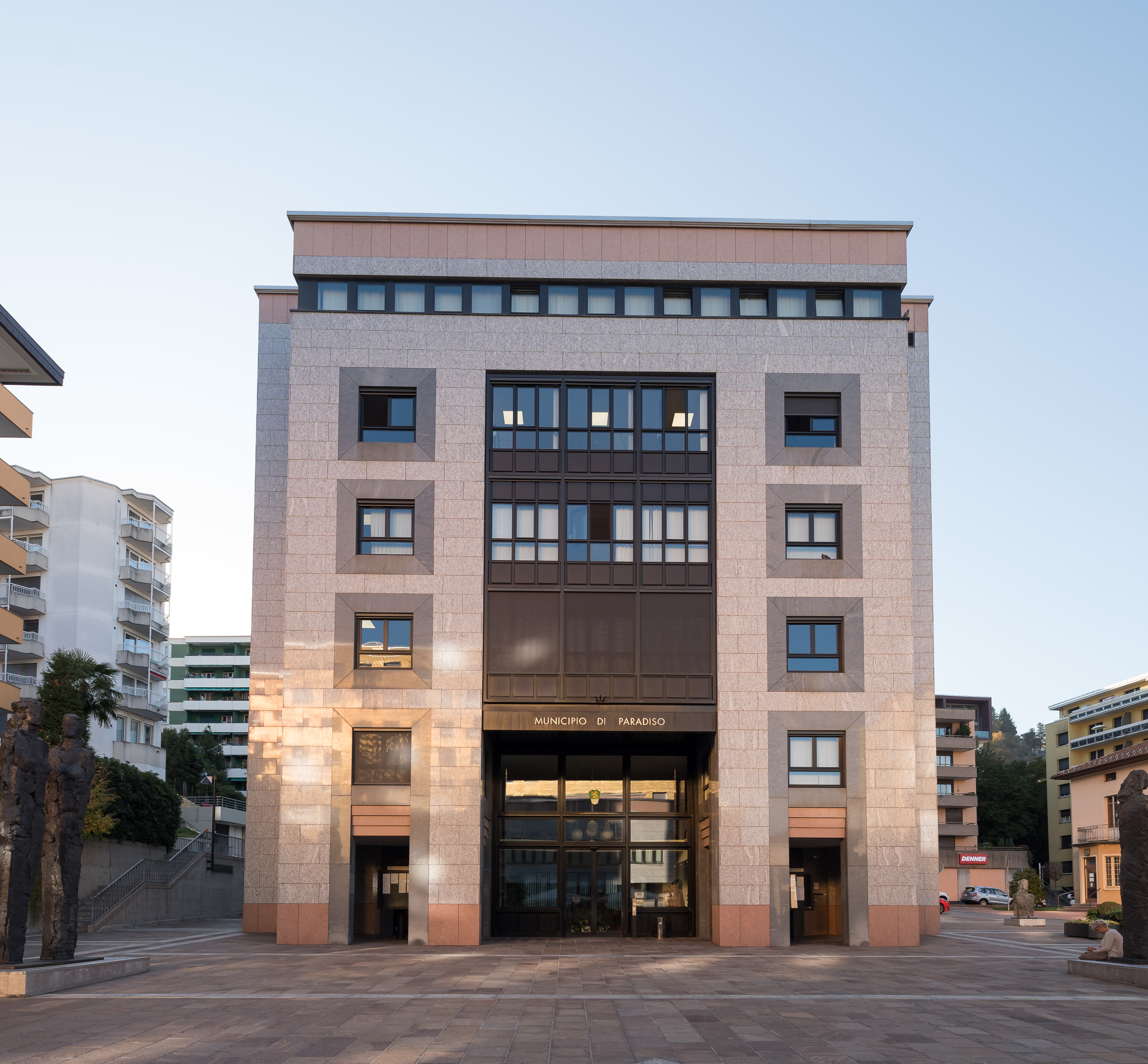 Minicipio di Paradisio